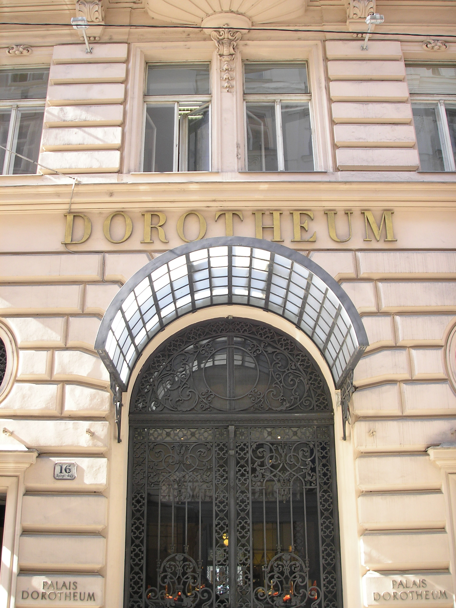 Image of the Palais Dorotheum in Vienna's first district Innere Stadt, today headquarters of the Dorotheum auction house.